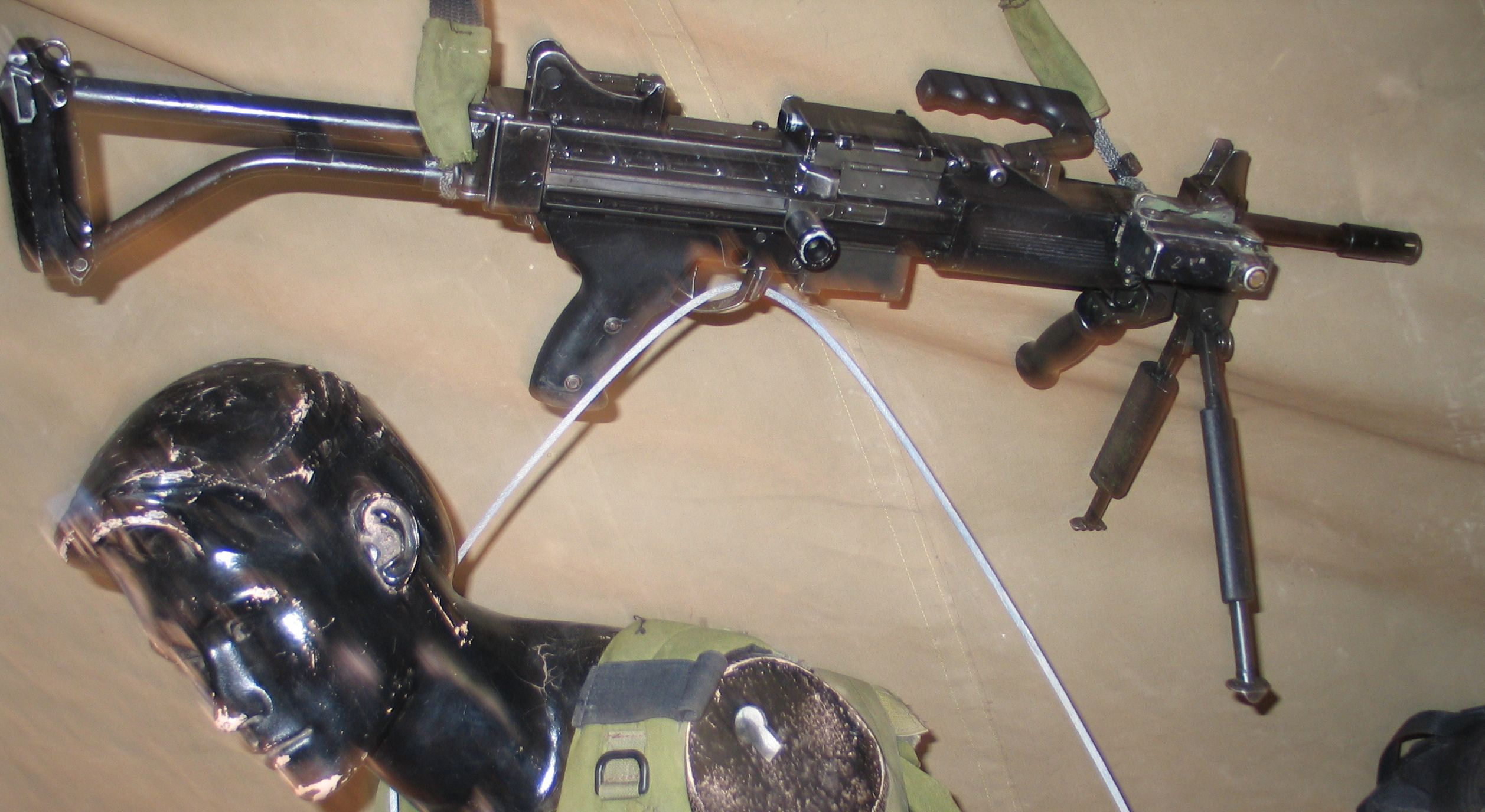 IMI Negevon light machine gun. Independence Day exhibition at Yad la-Shiryon Museum, Latrun, Israel.